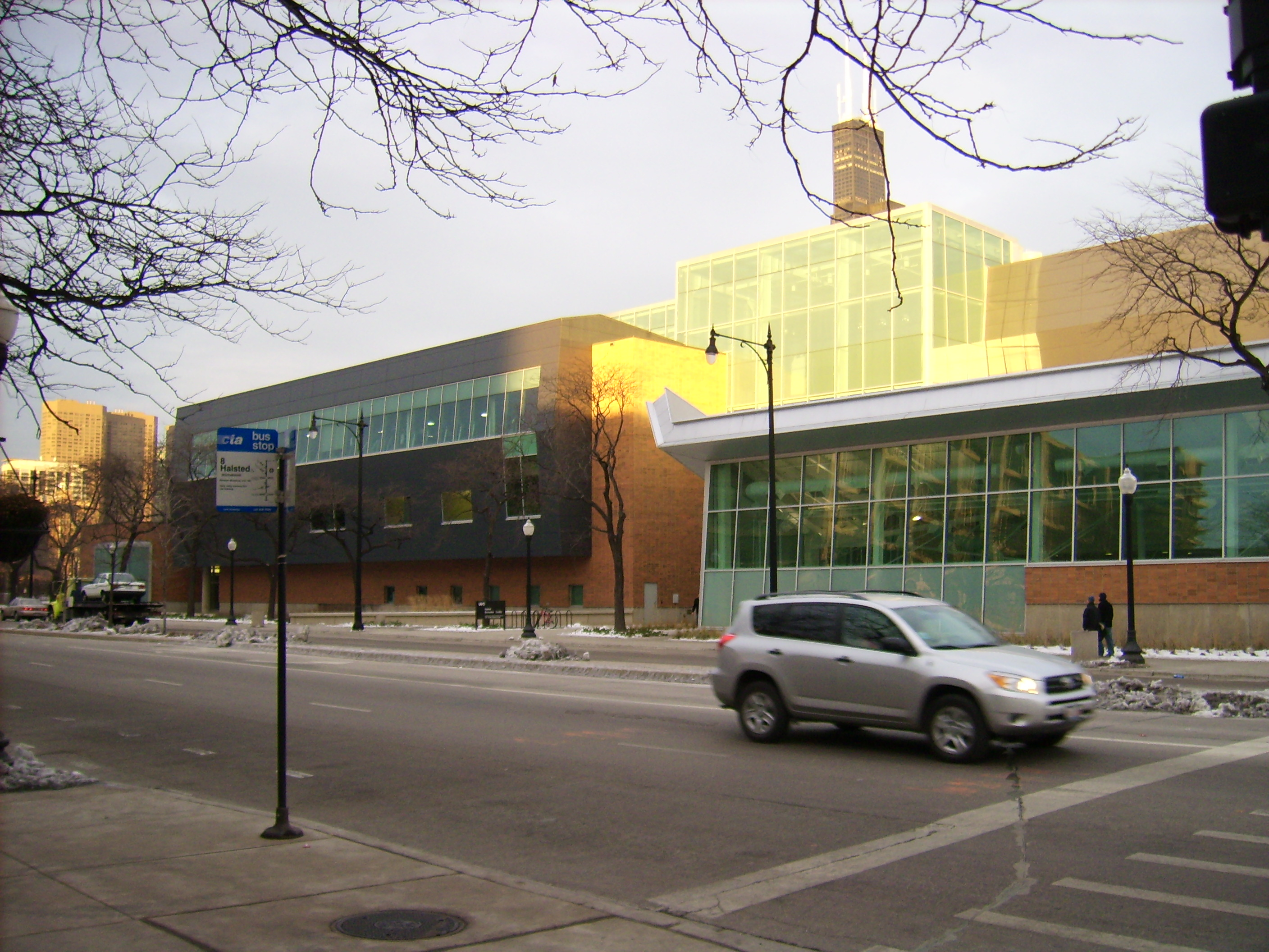 University of Illinois at Chicago SRF